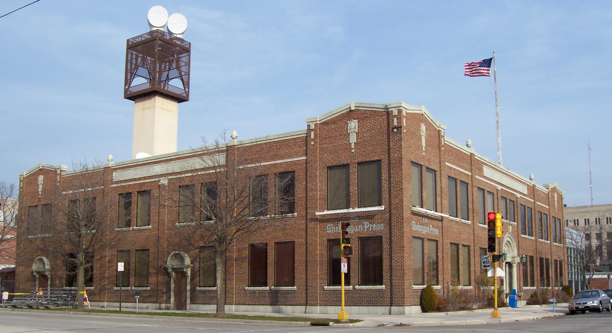 The Sheboygan Press newspaper building in Sheboygan, Wisconsin, USA. Cropped from original.